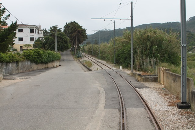 Sintra tram-line in Colares